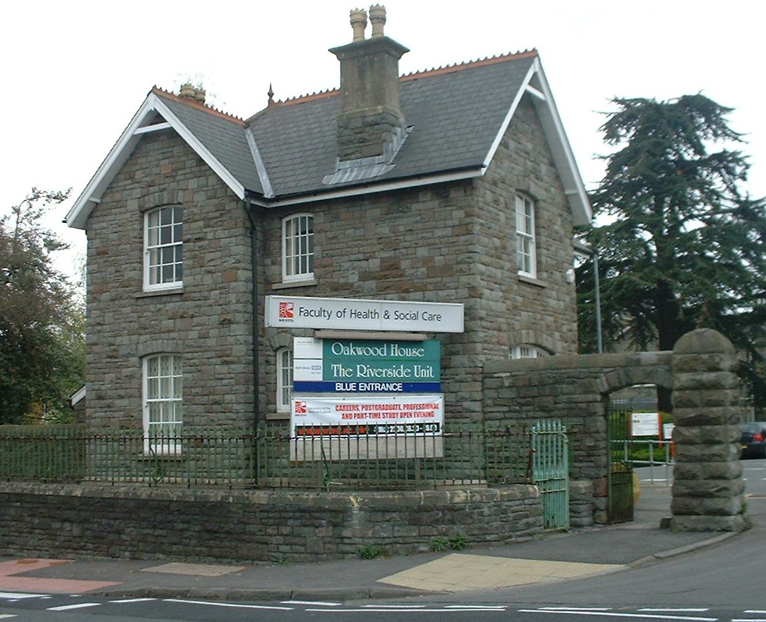 The Lodge at Gelside.